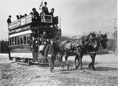 Double deck tram of one of the first tram-lines in Dresden, opened 1881